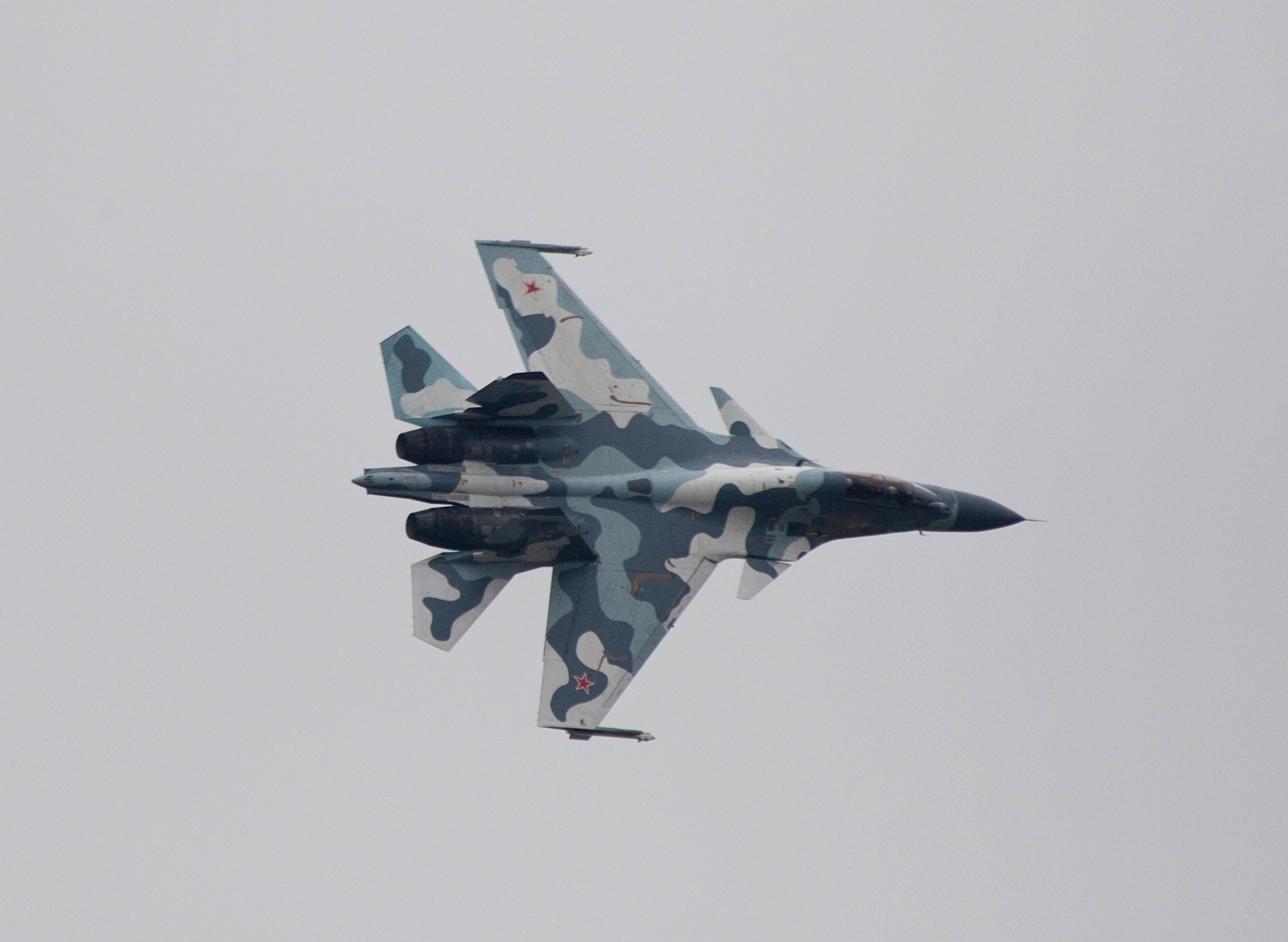 MAKS Airshow 2009 flyover. An Suhkoi Su-27/25, with experimental forward canards.